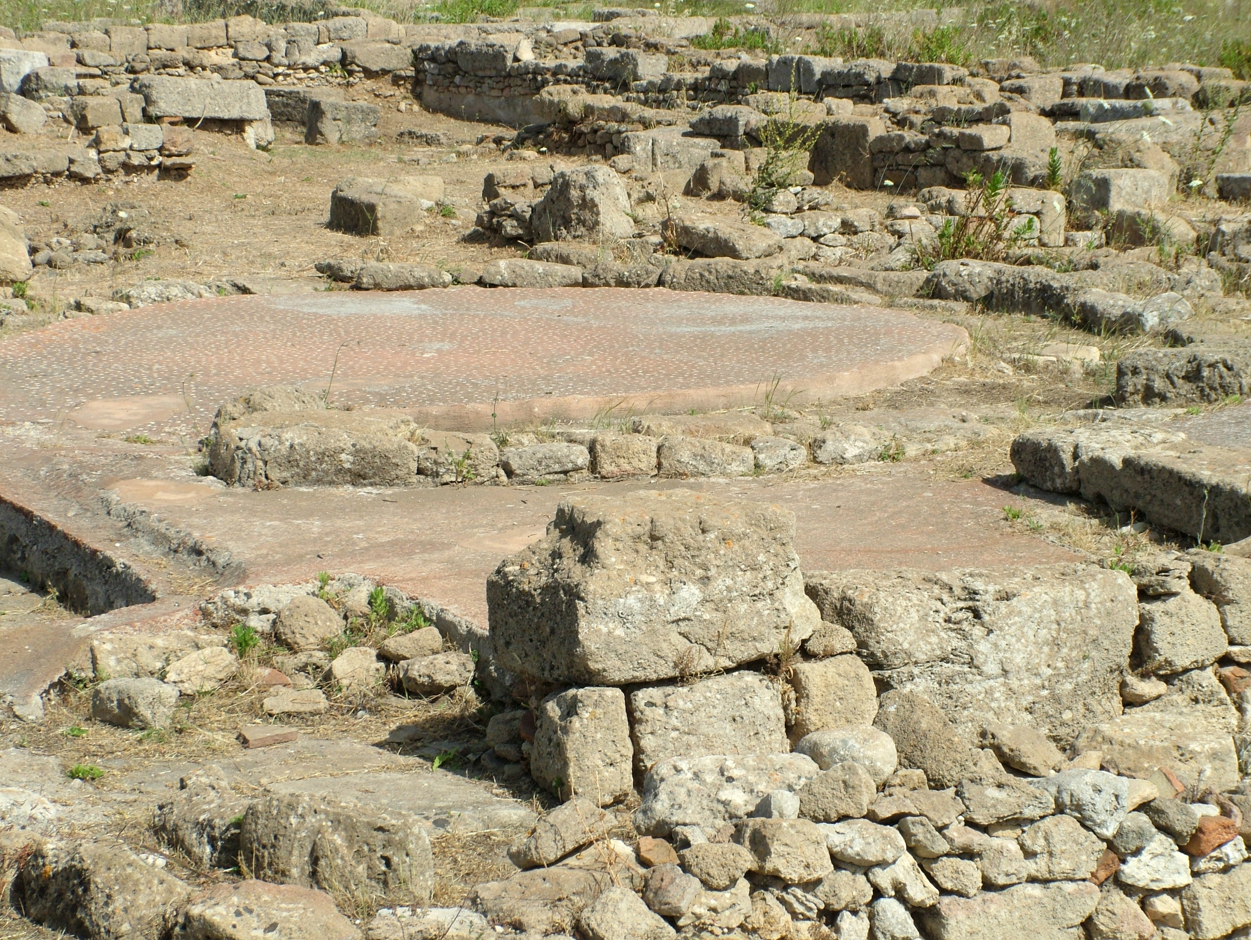 Megara Hyblaea, Sizilien, bei Augusta. The picture shows mosaics of a house in the near of the west gate.